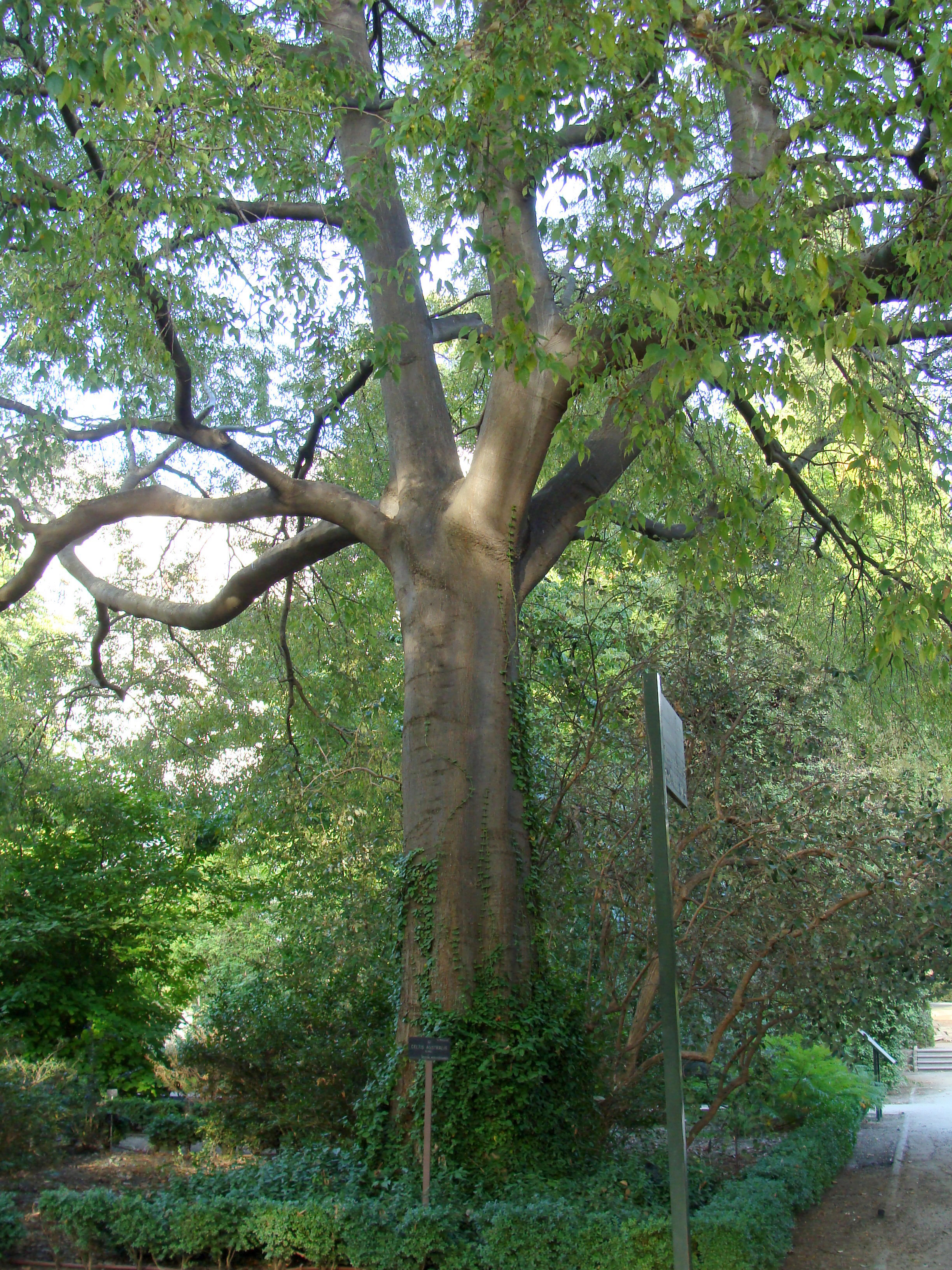 Almez (Celtis australis) en el Real Jardín Botánico de Madrid